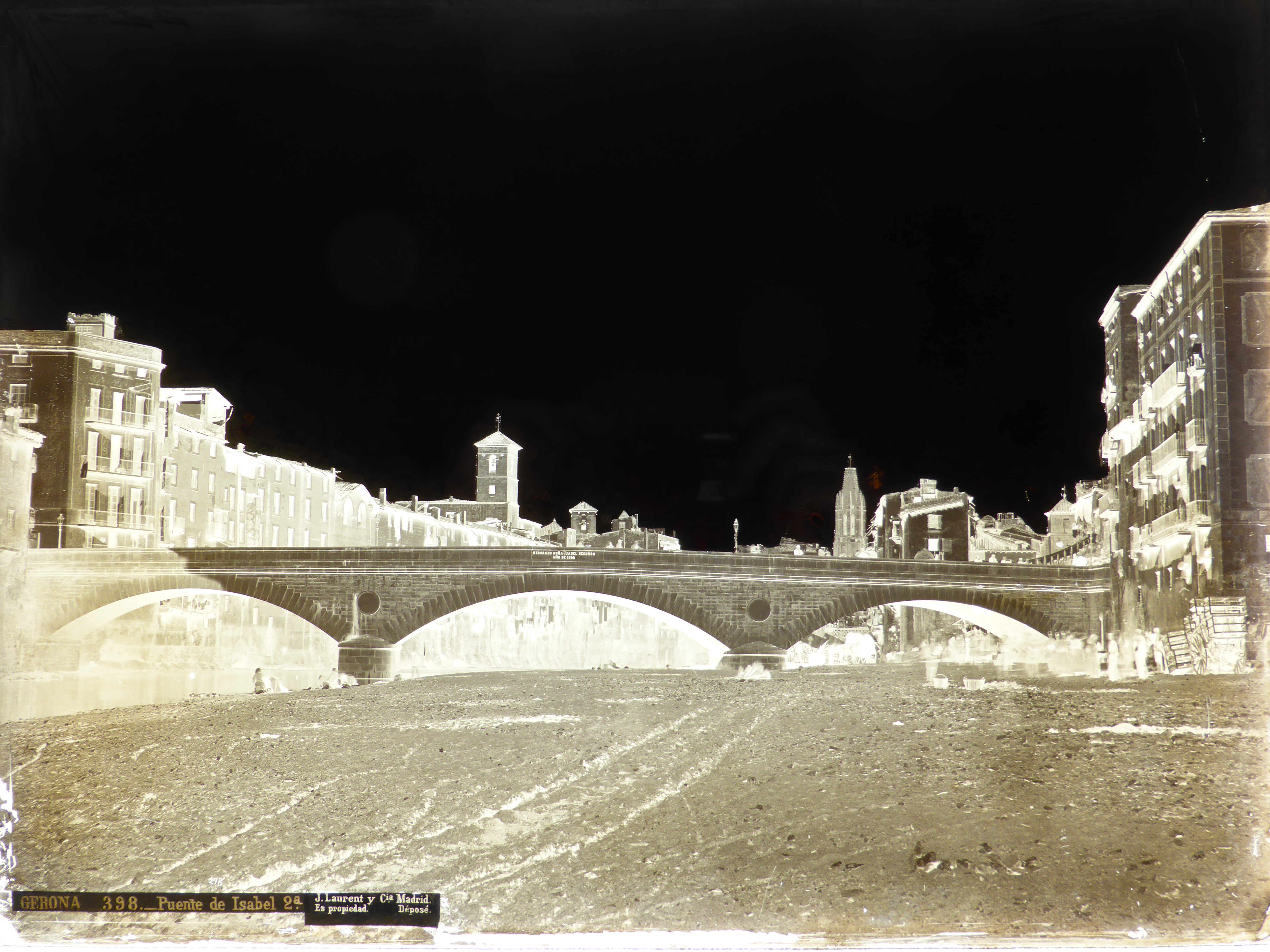 Photo of Gerona (or Girona), Spain, circa 1867. Photo by Jose Martinez Sanchez, associated with J. Laurent. The original glass negative is preserved in Madrid, in the Photo Library of the Institute of Cultural Heritage of Spain.